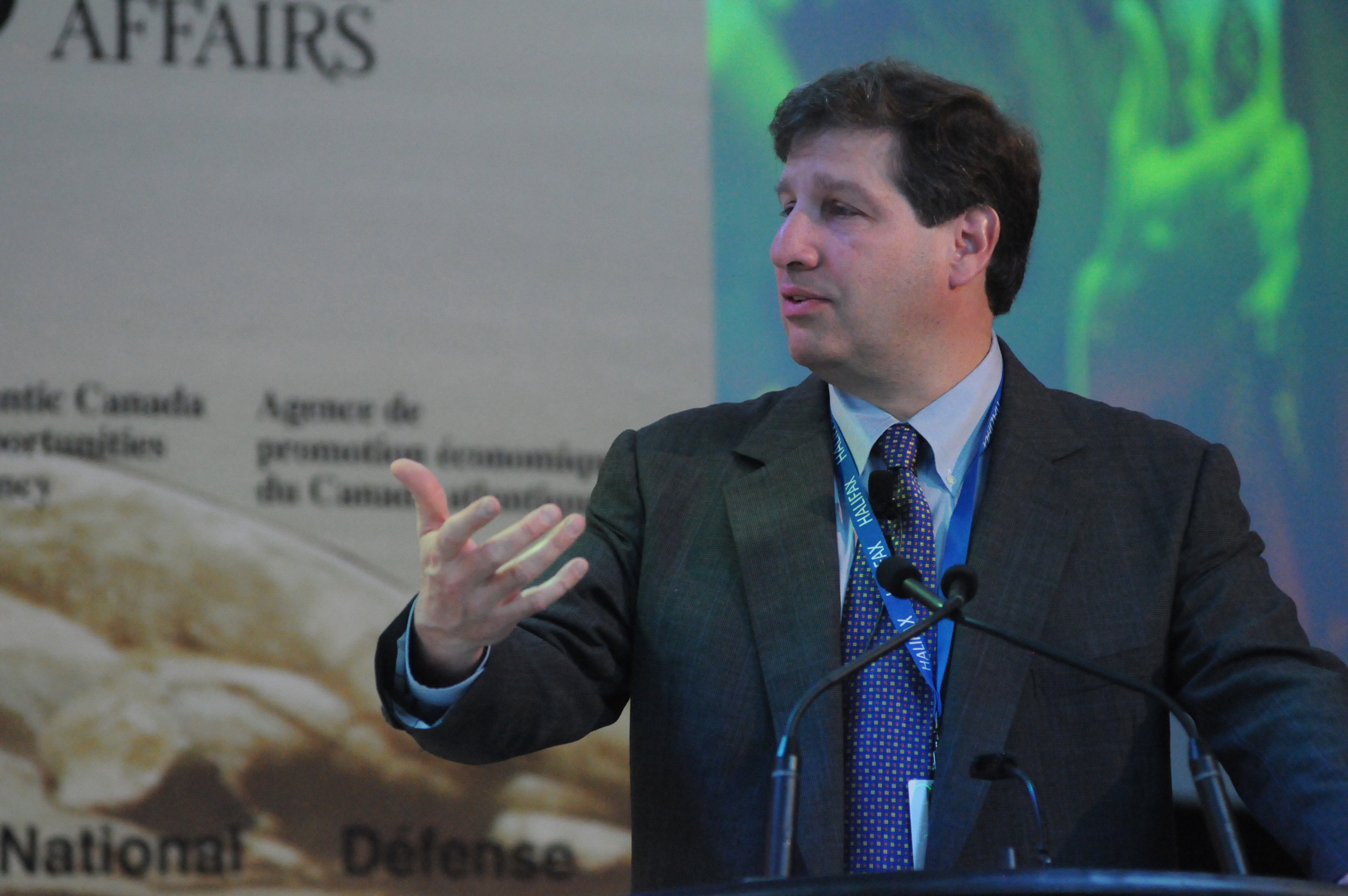 Foreign Affairs Editor Gideon Rose moderates the opening panel of the 2012 Halifax International Security Forum.